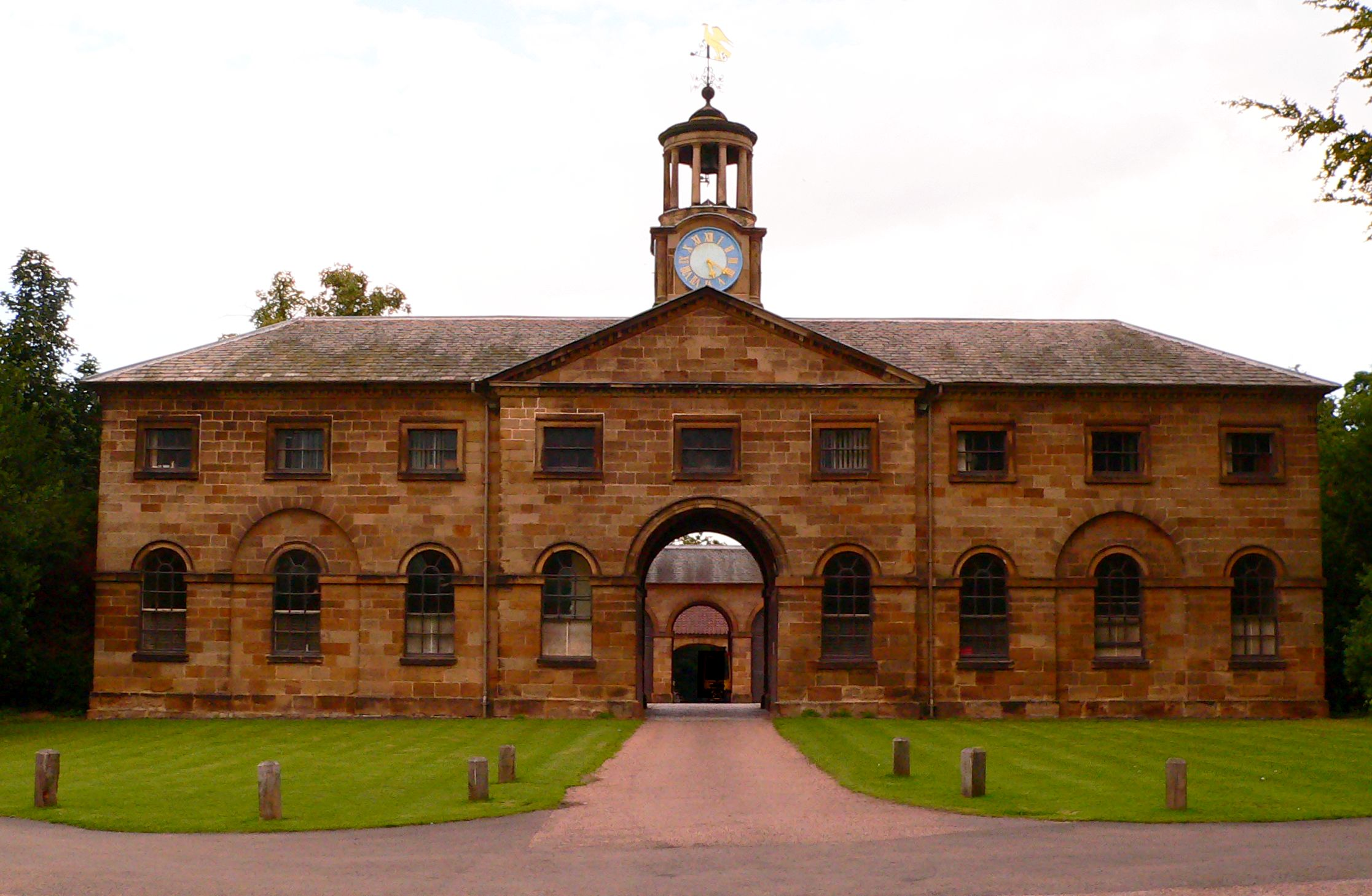 Ormesby Hall Stables: the stable block houses the horses of Cleveland Police Mounted Section.